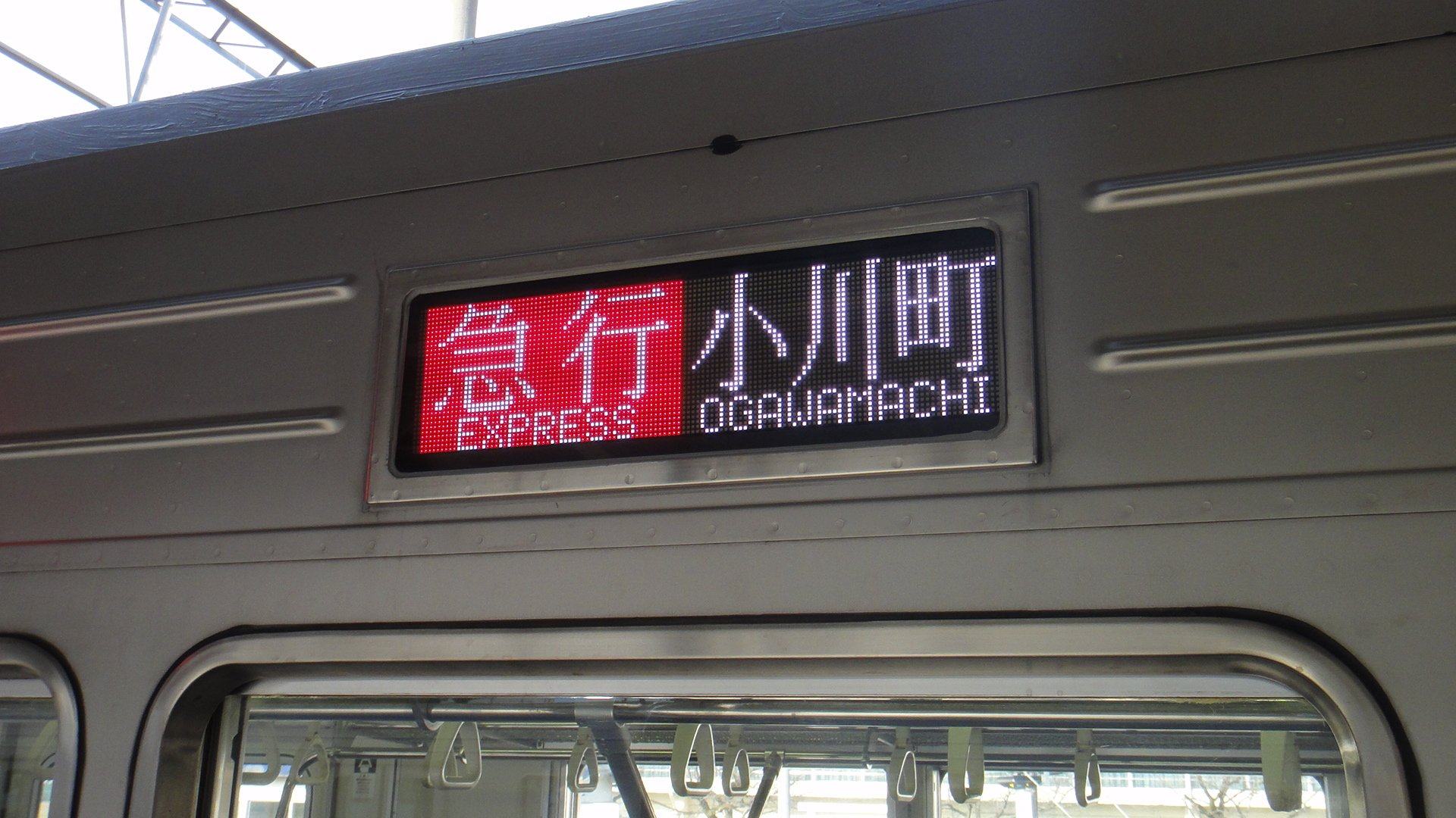 Full-colour LED destination indicator of a refurbished Tobu 10030 series EMU set at Ogawamachi Station on the Tobu Tojo Line